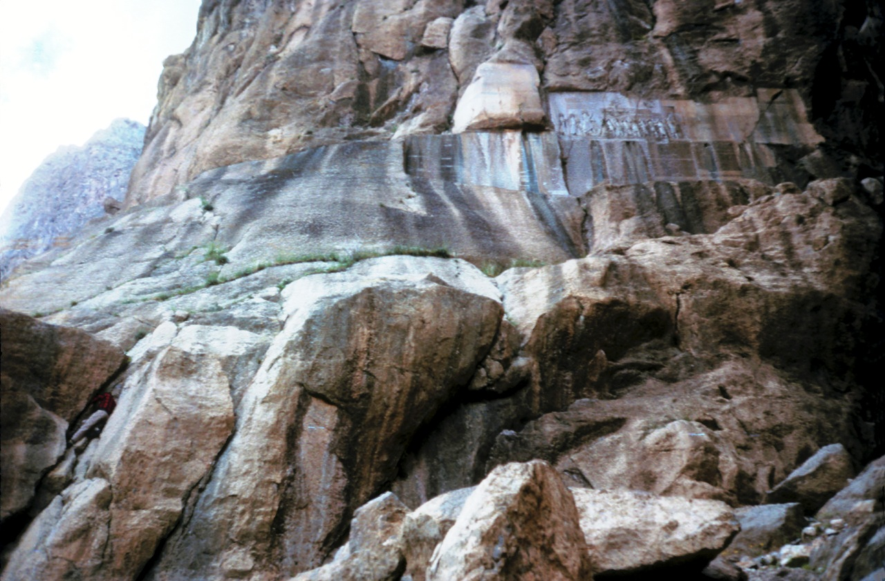 I am visible at lower left, making my way up a chimney. From the top of the chimney the route follows a slight ledge on the rock face up to the right and reaches the ledge below the inscription at extreme right. The most dangerous part is about half-way, where one has to step over a gap in the slight ledge. As I suffer from vertigo, it took some time to screw my courage up to the point where I made the jump.